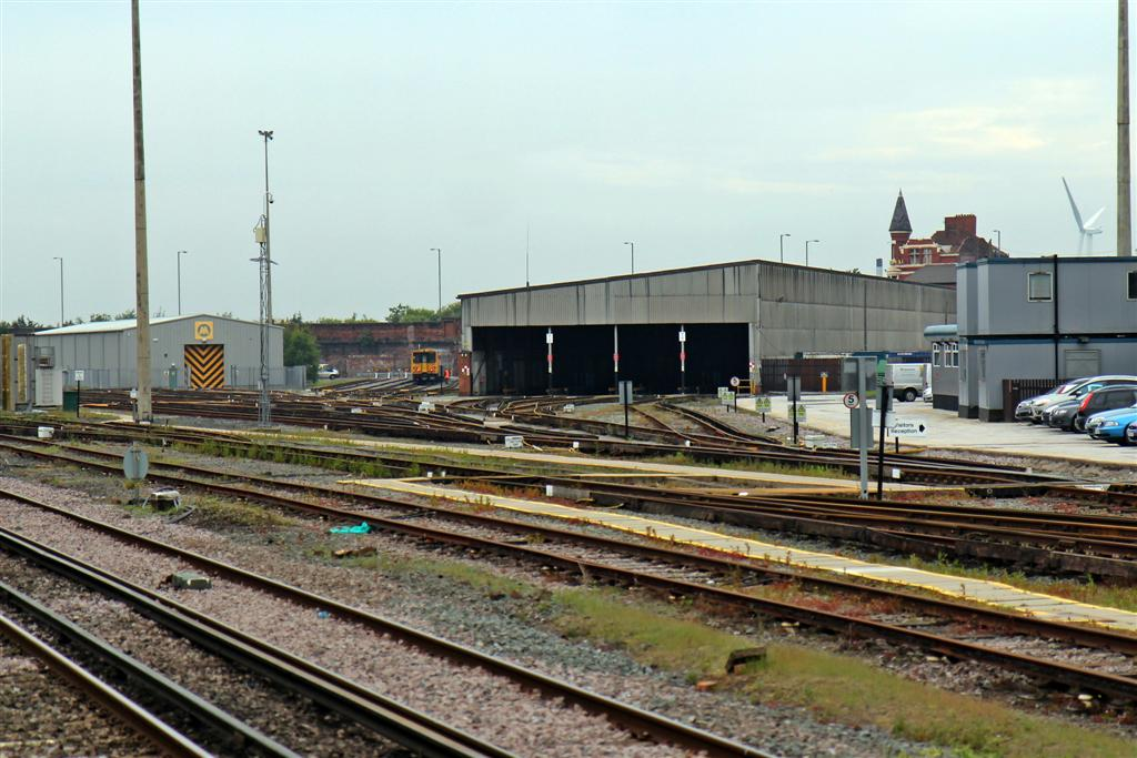 Kirkdale TMD